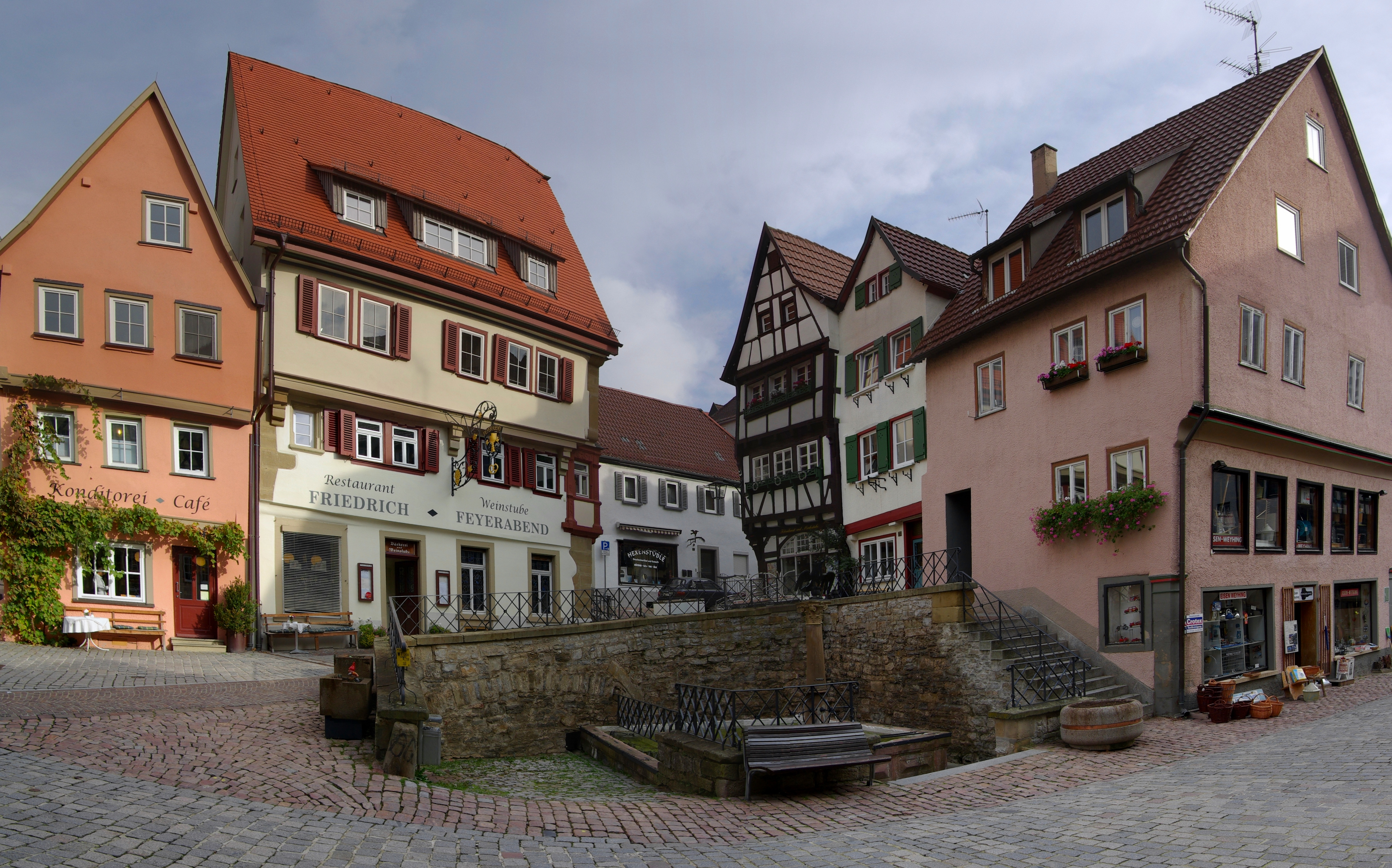 Germany, Bad Wimpfen